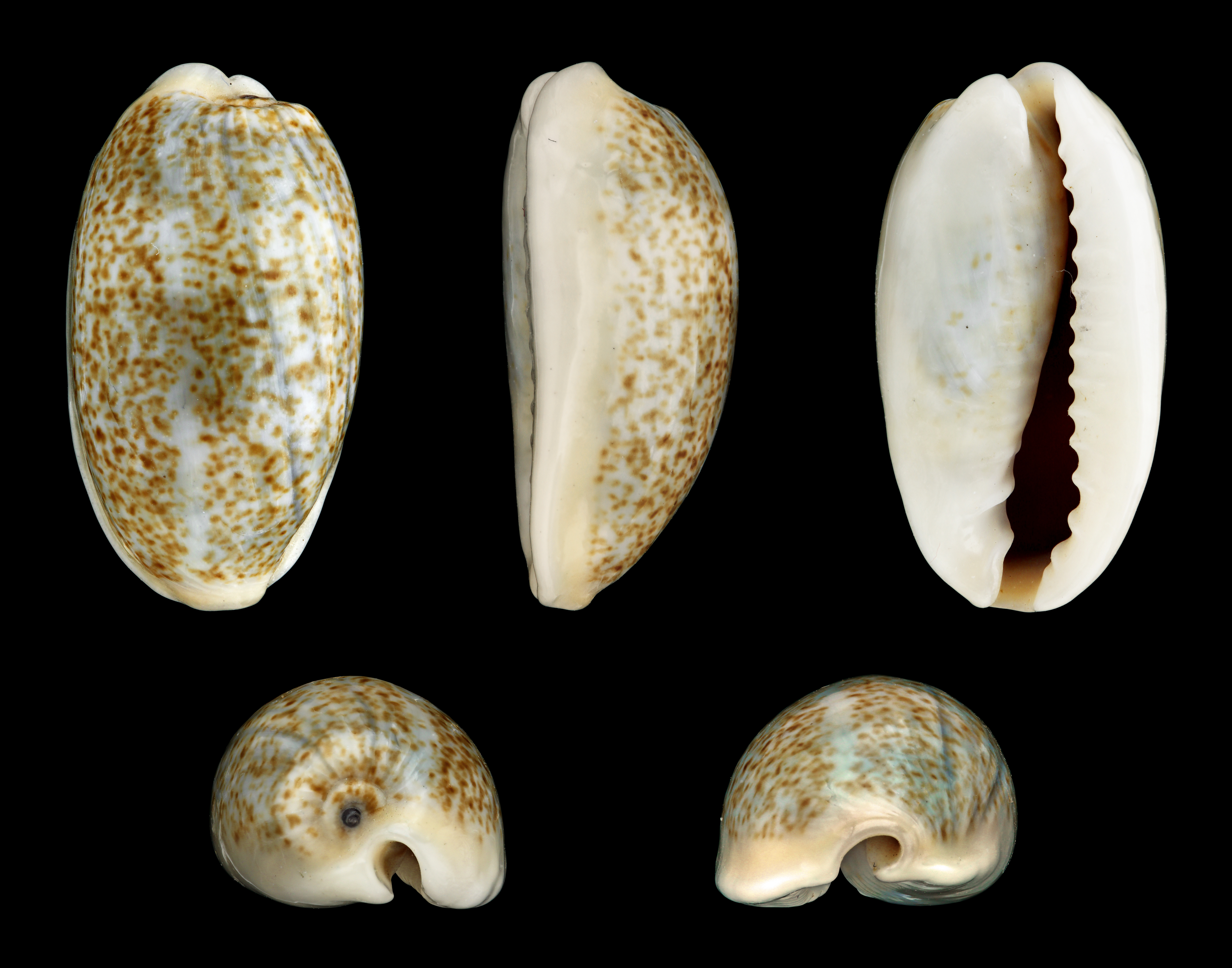 Wandering Cowry; Length 2.2 cm; Originating from Palou Tello, Batu Islands, Indonesia; Shell of own collection, therefore not geocoded. Dorsal, lateral (right side), ventral, back, and front view.